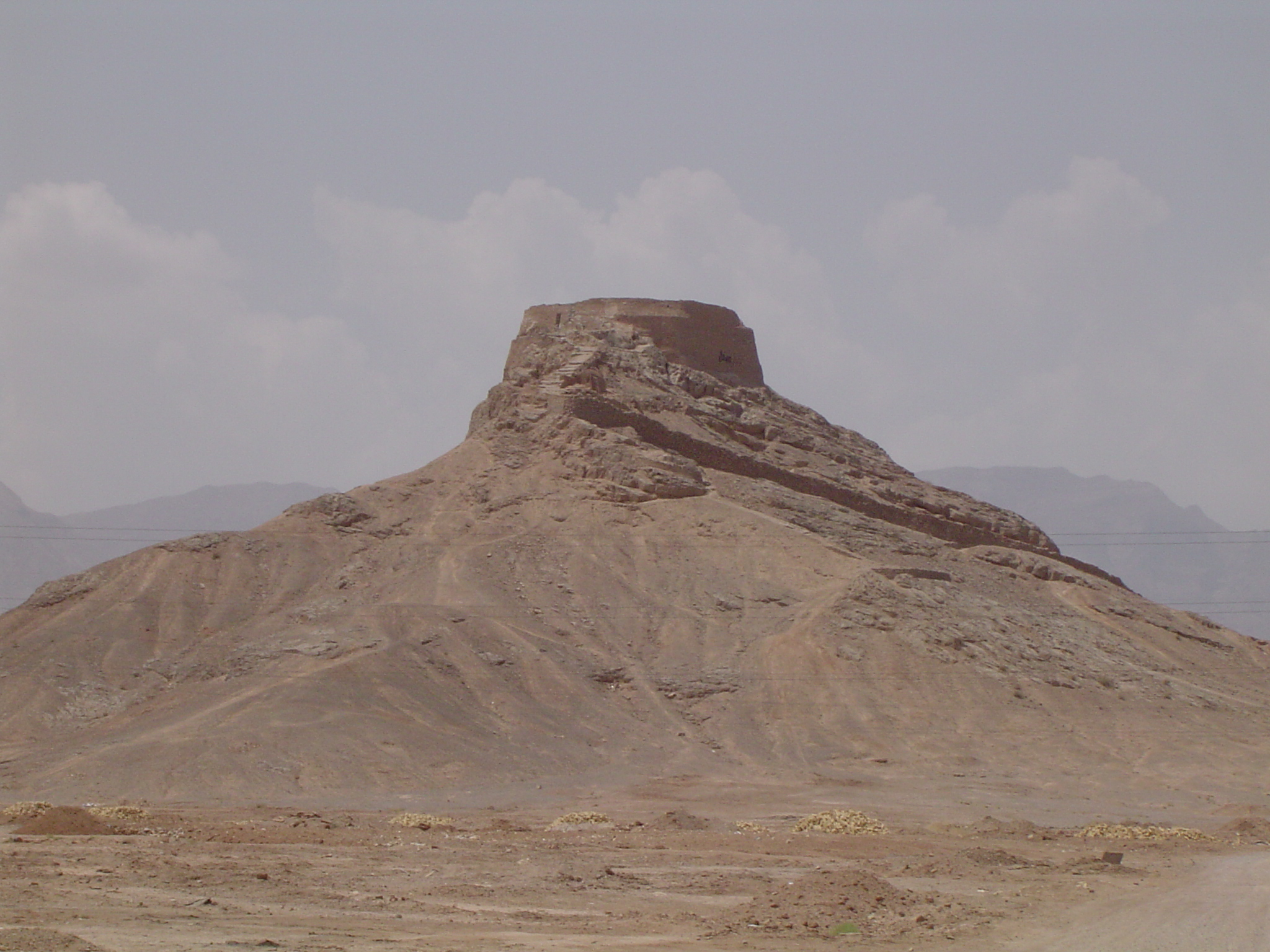 Zoroastrian Towers of Silence outside Yazd, Yazd province, Iran